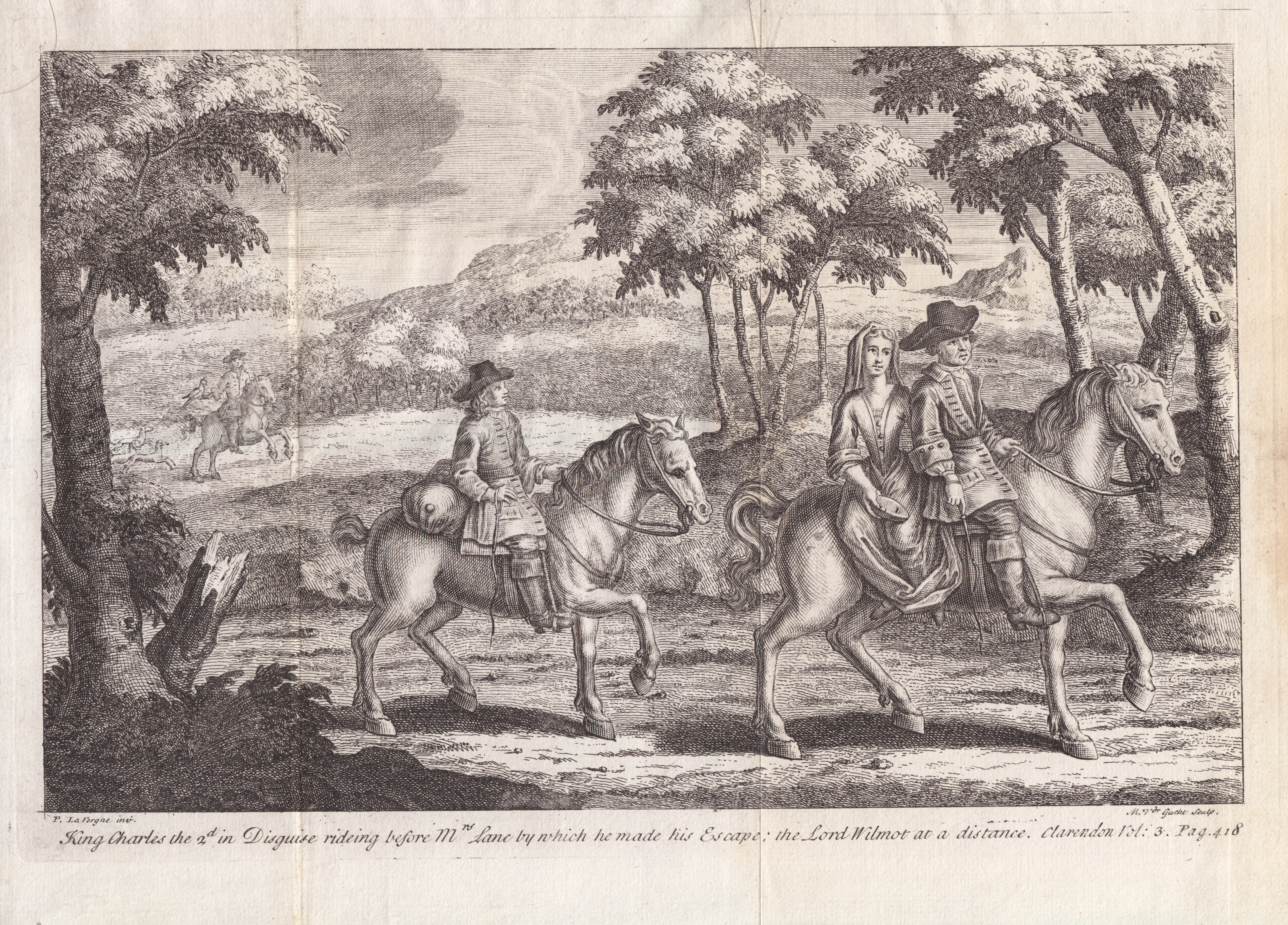 King Charles the 2d in Disguise rideing before Mrs Lane by which he made his Escape; the Lord Wilmor at a distance. Clarendon Vol: 3. Pag. 418. - P. La Vergne inv. M. Vdr Gucht Sculp.